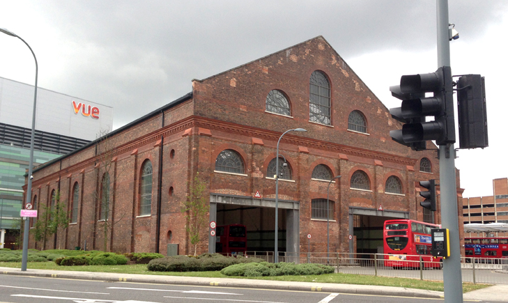 Dimco Buildings, Shepherd's Bush, London, May 2013